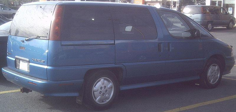 1994-1996 Chevrolet Lumina APV photographed in Dollard Des Ormeaux, Quebec, Canada.